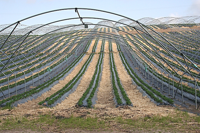 Strawberry Fields. No doubt these rows of strawberry plants will soon be covered by more polythene. In the meantime, the rows make a strong image.